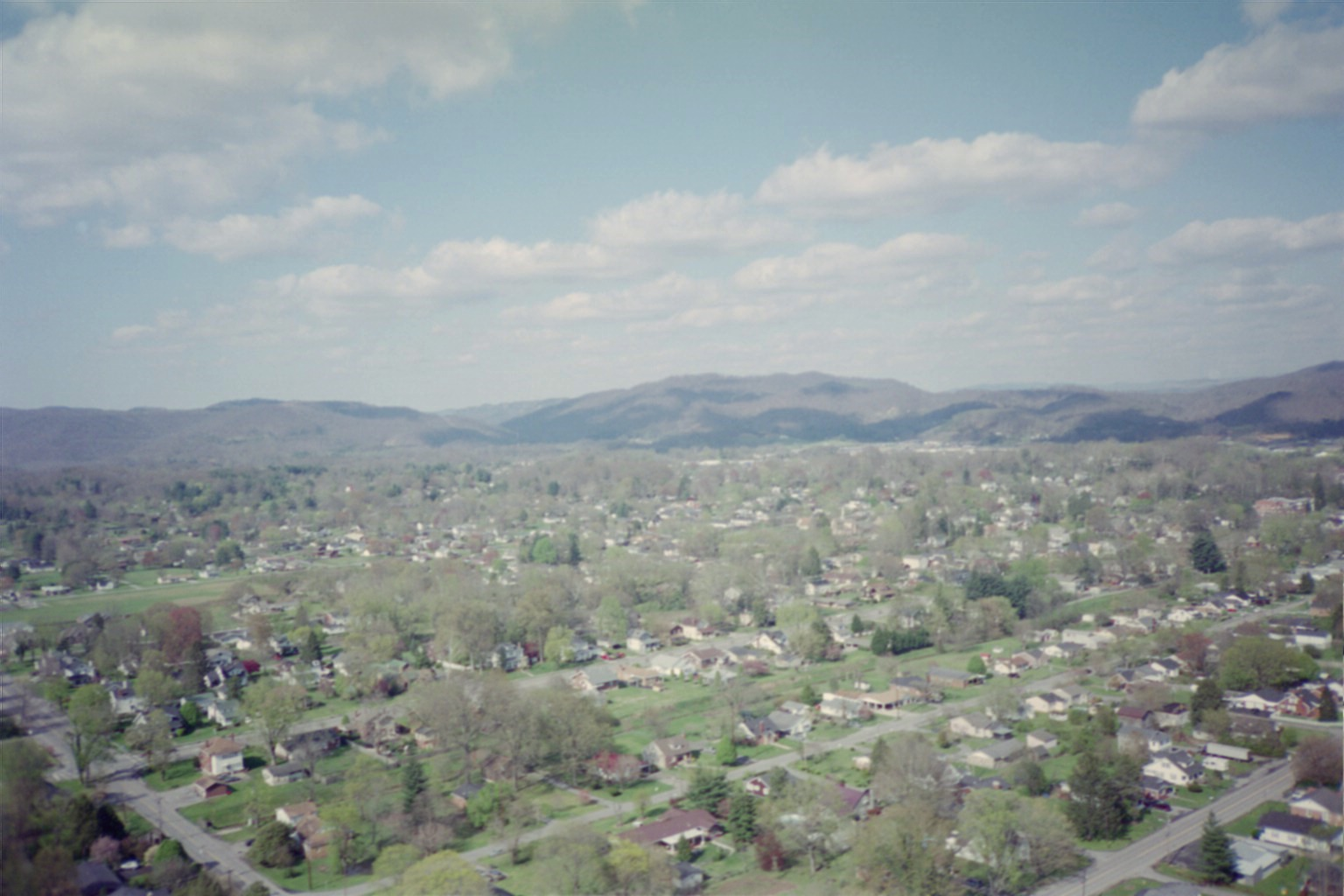 Aerial view of Middlesboro Kentucky by Michael W. King